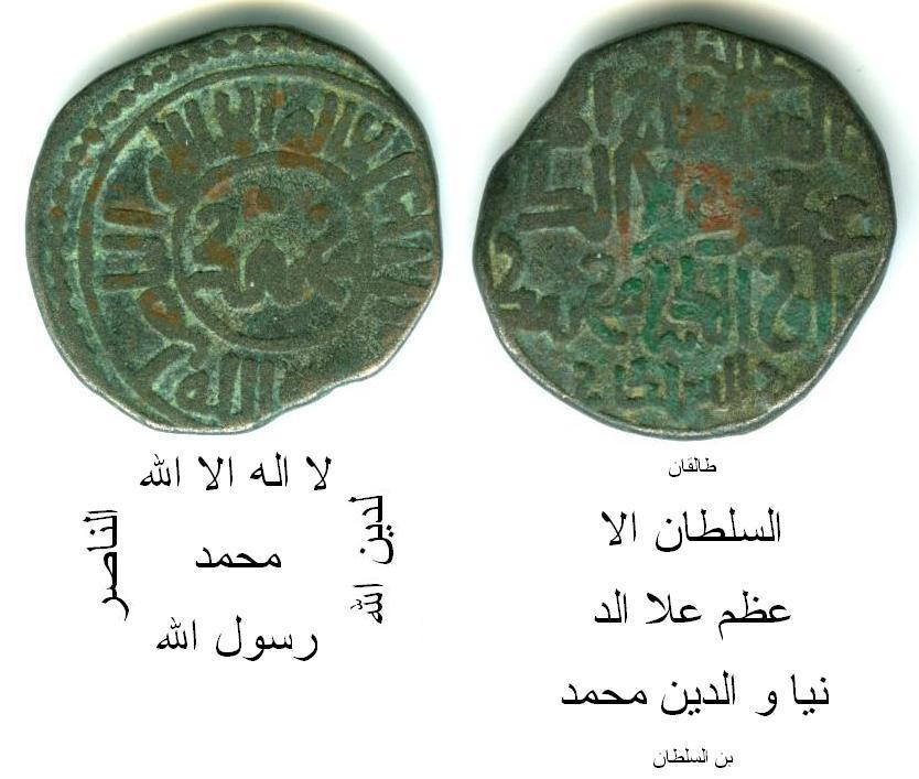 Khwarezmshahs: ’Ala ed-Din Mohammed ibn Tekesh (1200-1220): billon jital minted in Taliqan. Citing caliph An-Nasir li-Din Allah. Diameter: 16 mm, weight: 2.7 g.